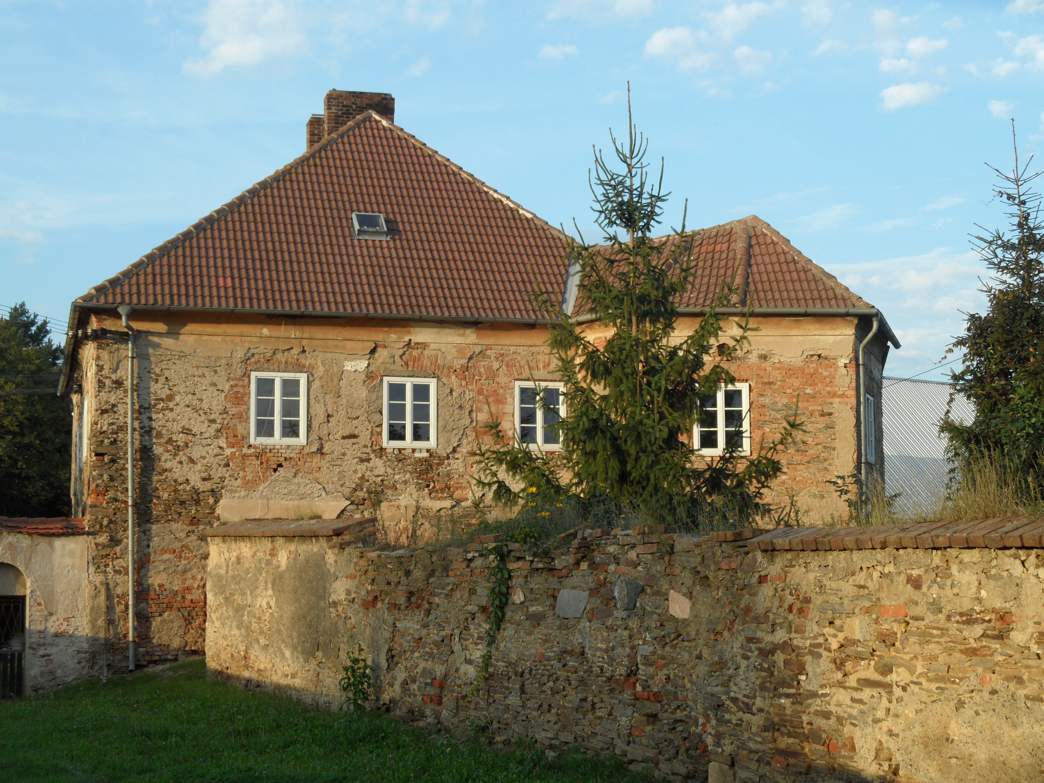 Žáky D. Stronghold Žáky, Kutná Hora District, the Czech Republic.